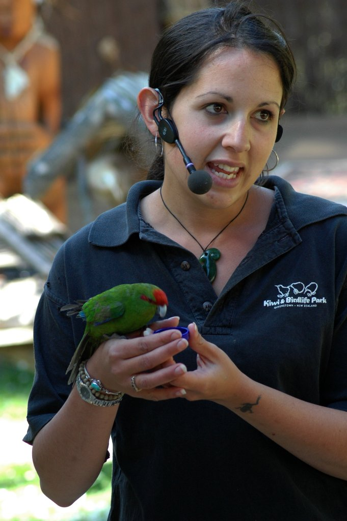 A zoo keeper demonstrating a Red-fronted Parakeet at the Kiwi Birdlife Park, Queenstown, New Zealand.